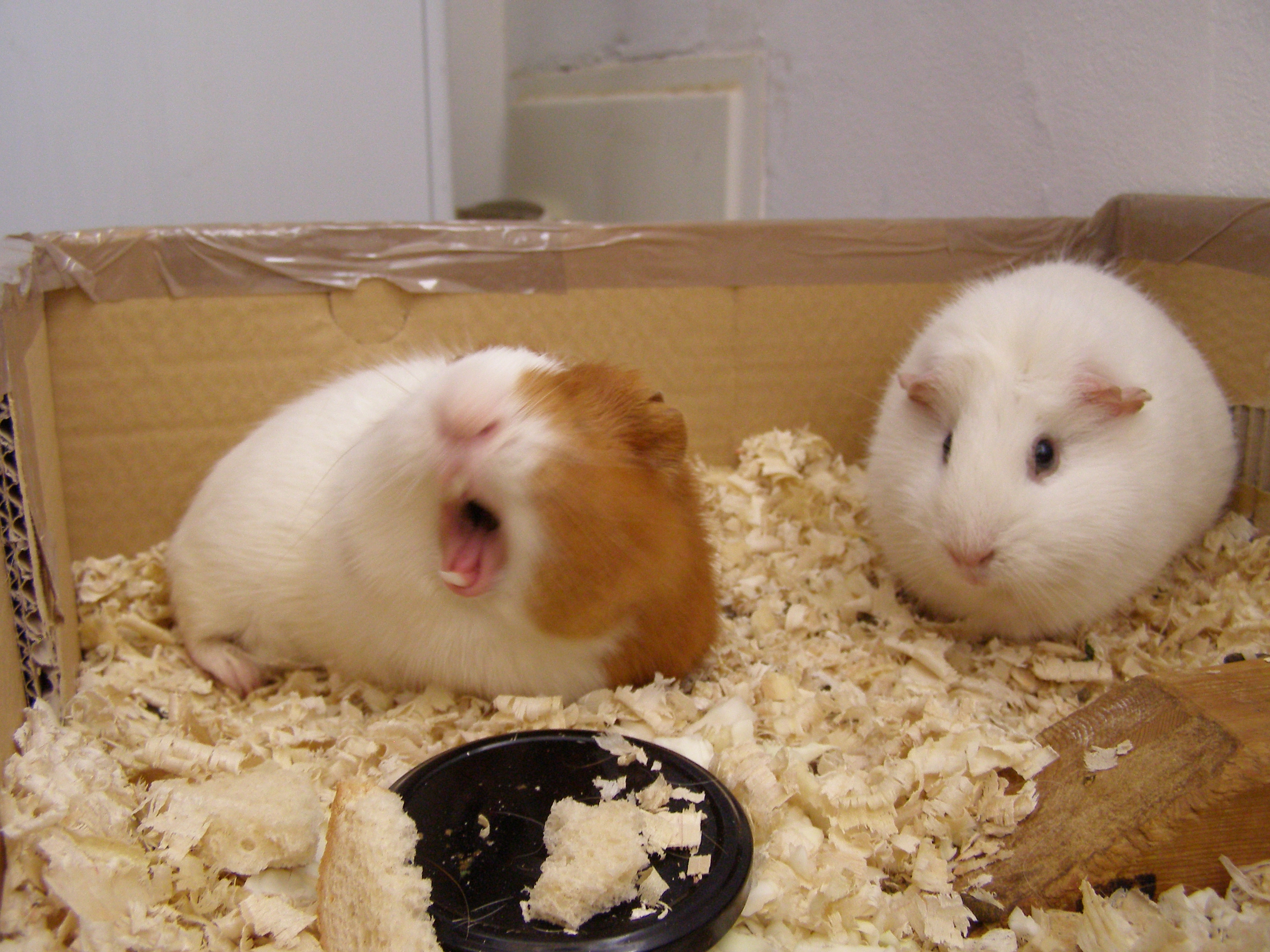 Guinea pig yawns